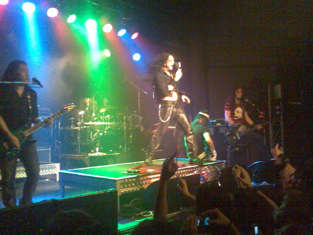 A photo of DragonForce performing live at Pipleline Cafe in Honolulu, HI taken in October 2008.